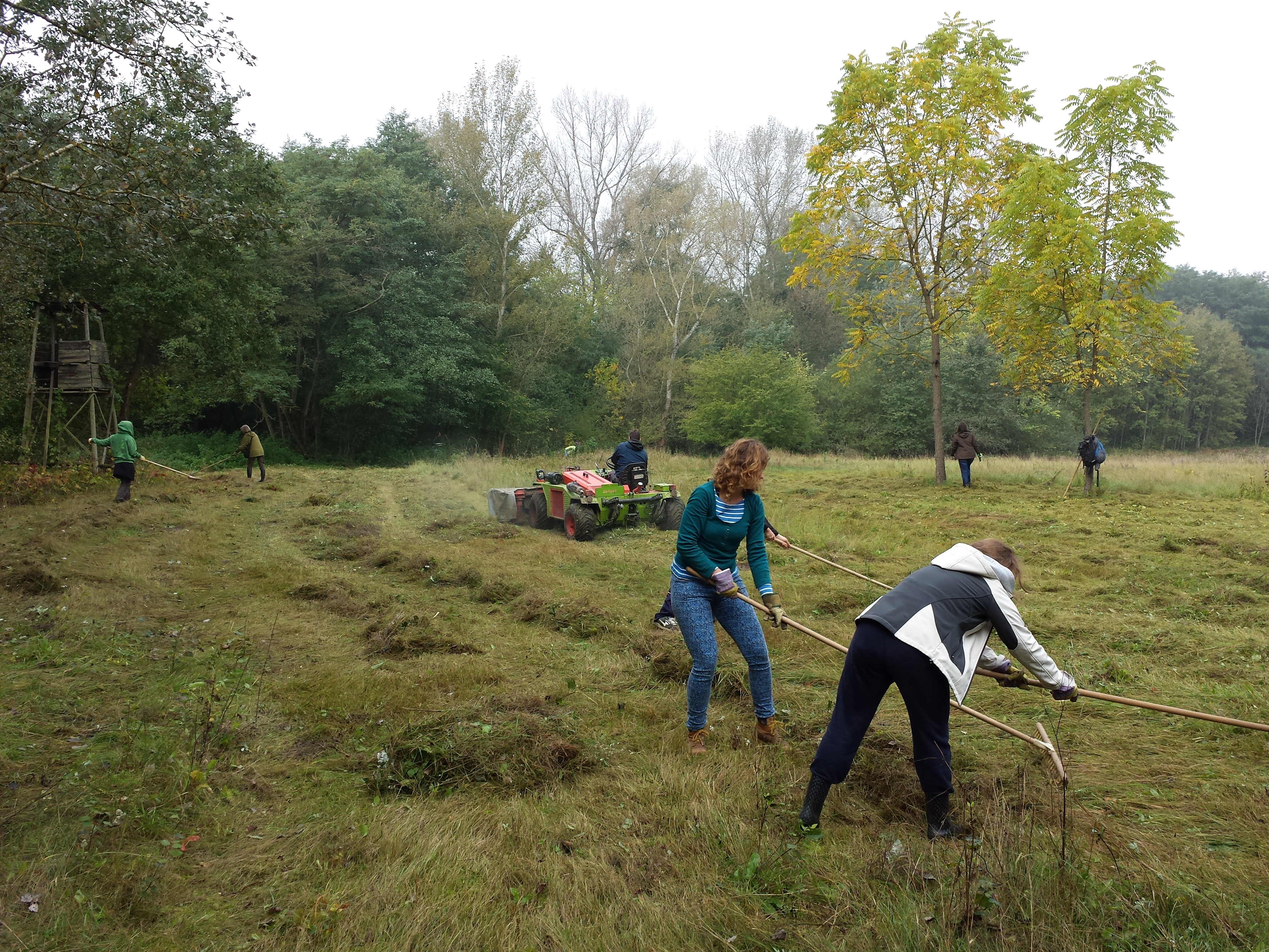 Sand plain Ringelsdorf, district Gänserndorf, Lower Austria - ca. 150 m a.s.l. Preservation effort by "Naturschutzbund NÖ"